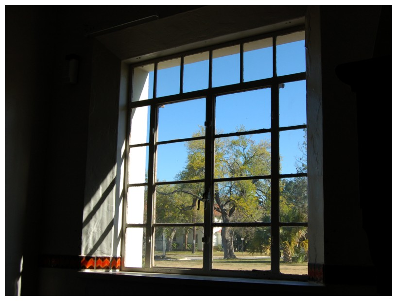 View out a window from a darken room. Fort Sam Houston, San Antonio Texas (December 2006). Photo by Peter Rimar.